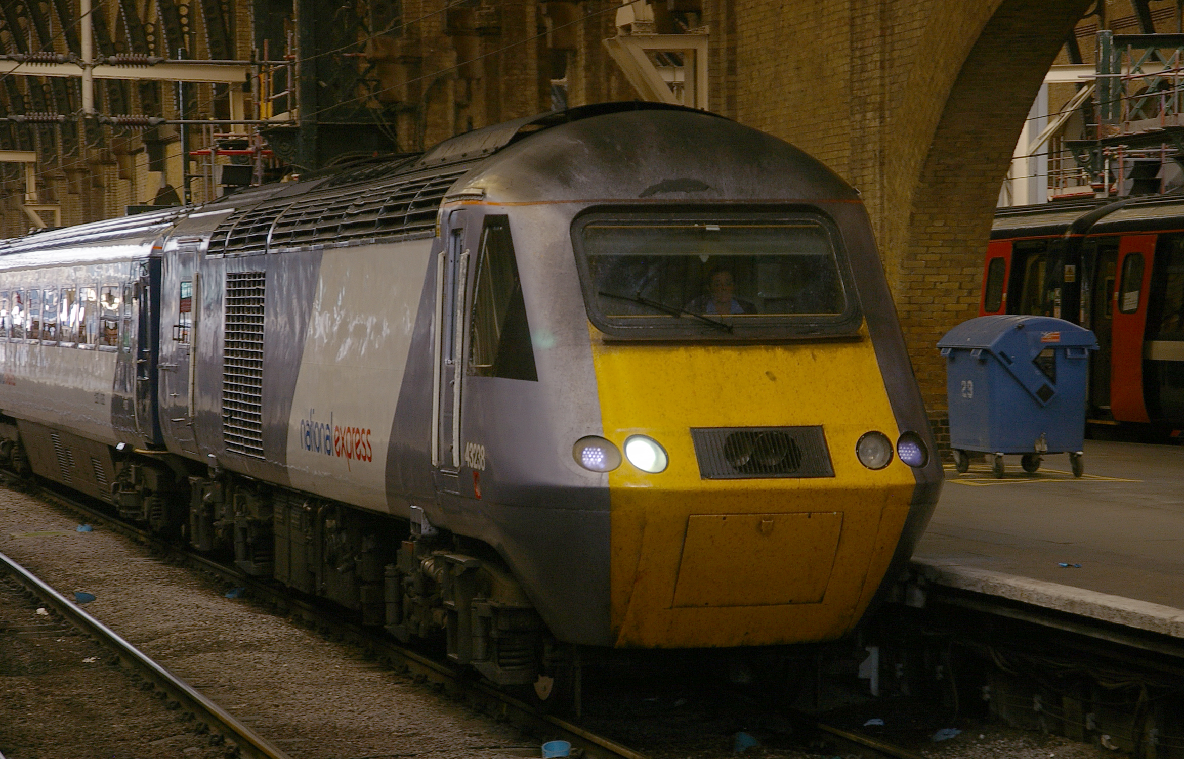 A National Express East Coast HST arrives at London Kings Cross railway station, headed by 43238.